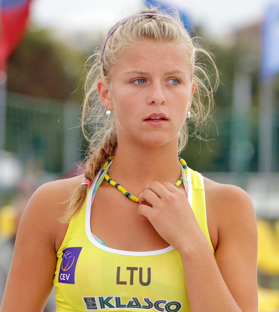 Volleyball player Monika Povilaitytė